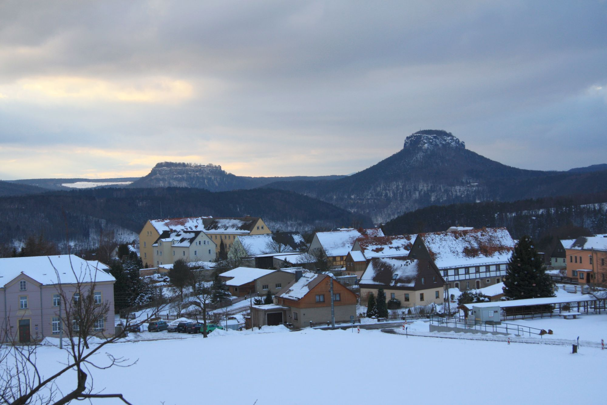 Rathmannsdorf, Germany